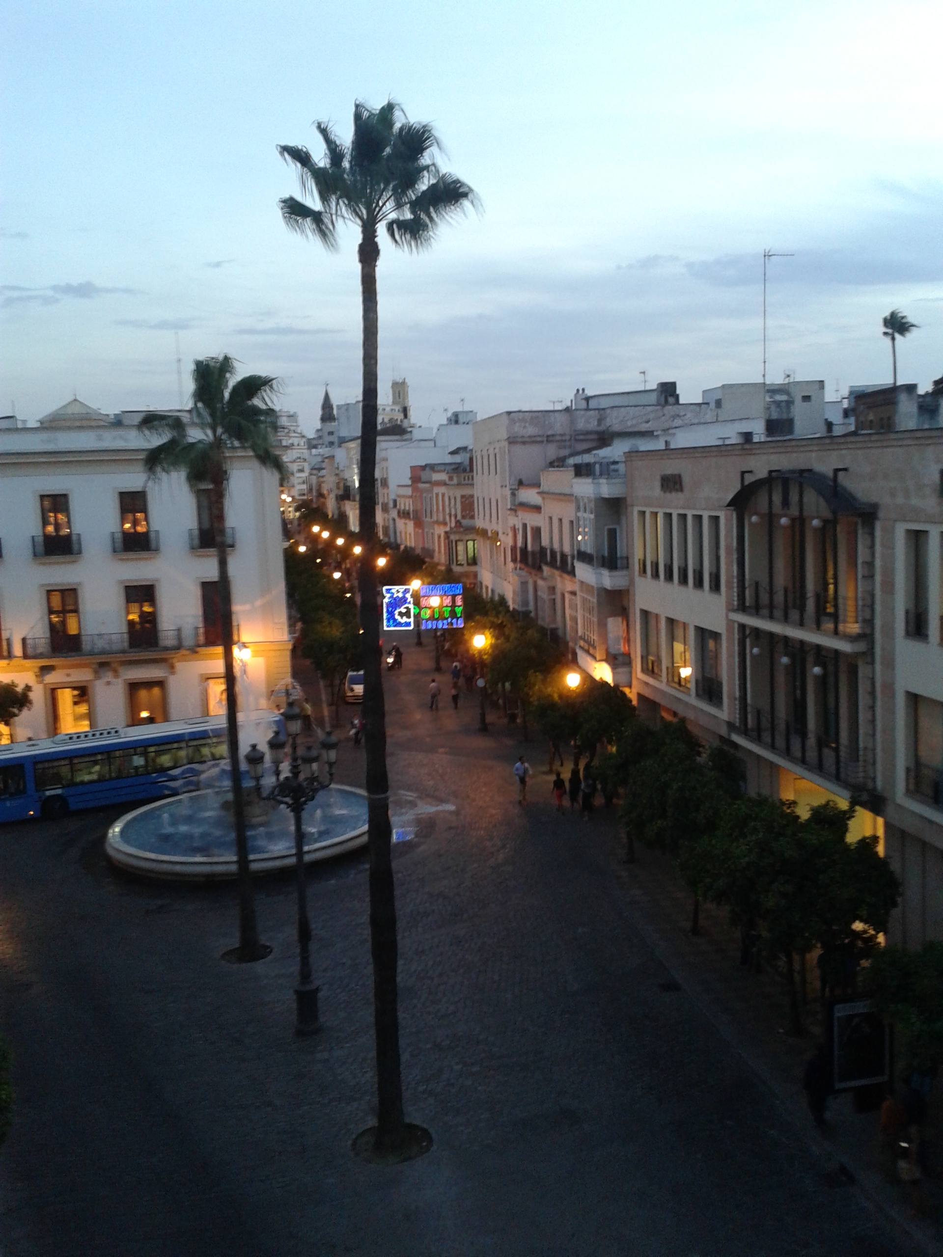 Jerez Wine City 2014